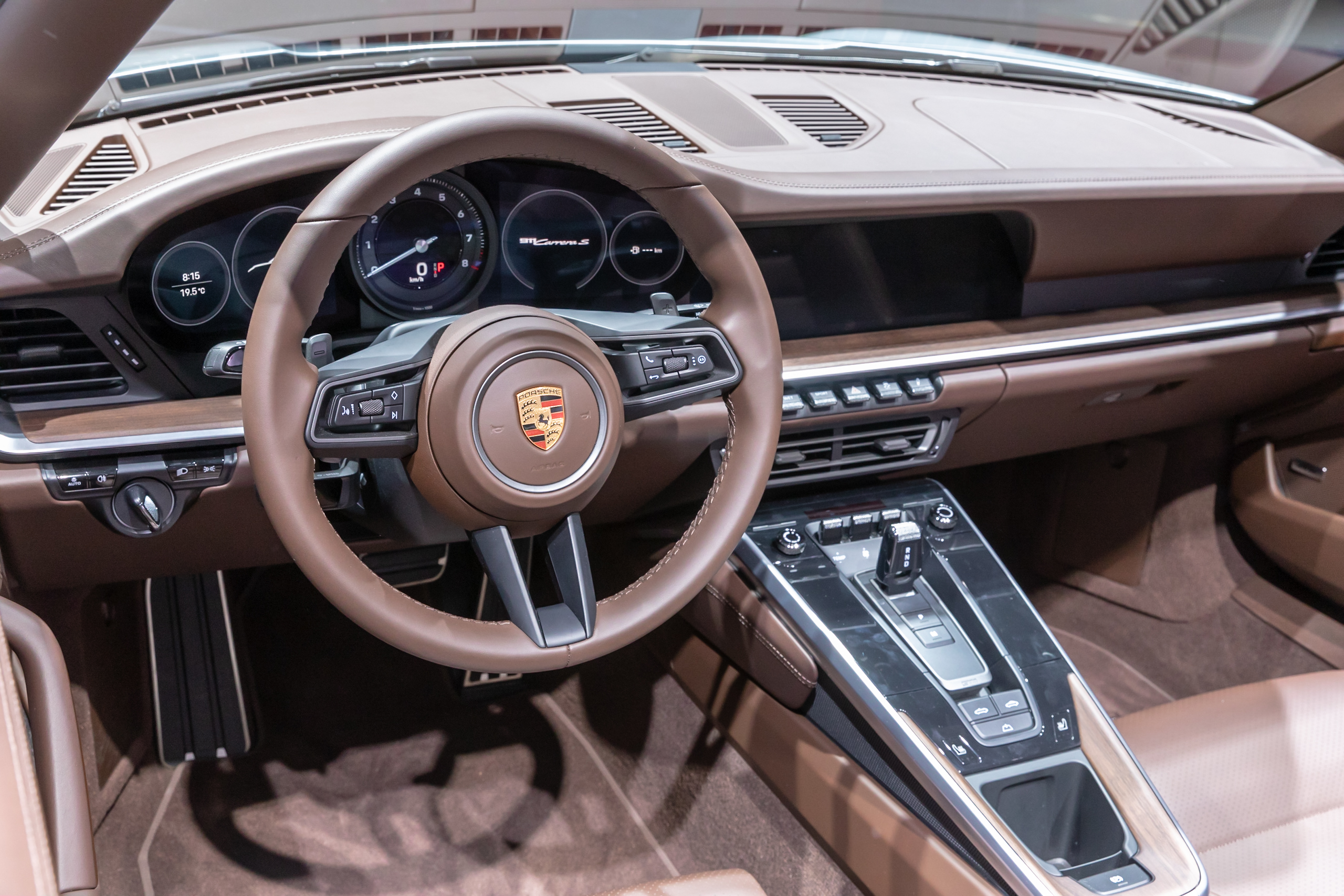 Geneva International Motor Show 2019, Le Grand-Saconnex